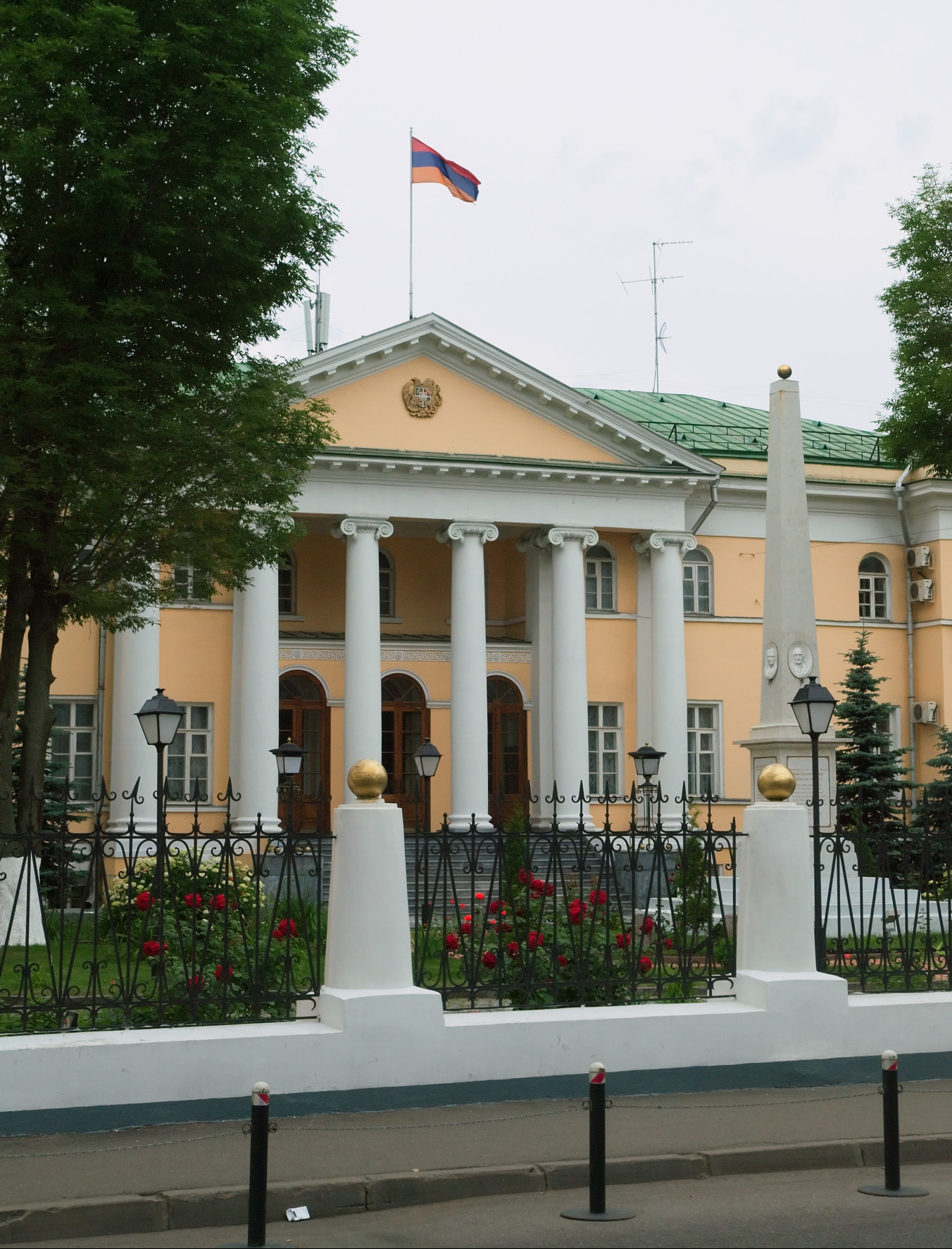 Armyansky Lane, Moscow.Former Lazarev institute of Oriental studies, a hub of Armenian diaspora in early XIX century - present-day Embassy of Armenia. Built in many stages in 18th-19th century; facade outline designed in 1814 and completed in 1823. The obelisk of pig iron (Lazarevs owned iron mills in Perm) was raised in 1822.